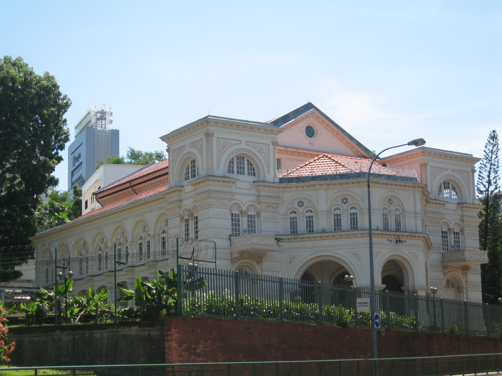 Chesed-El Synagogue, Singapore.